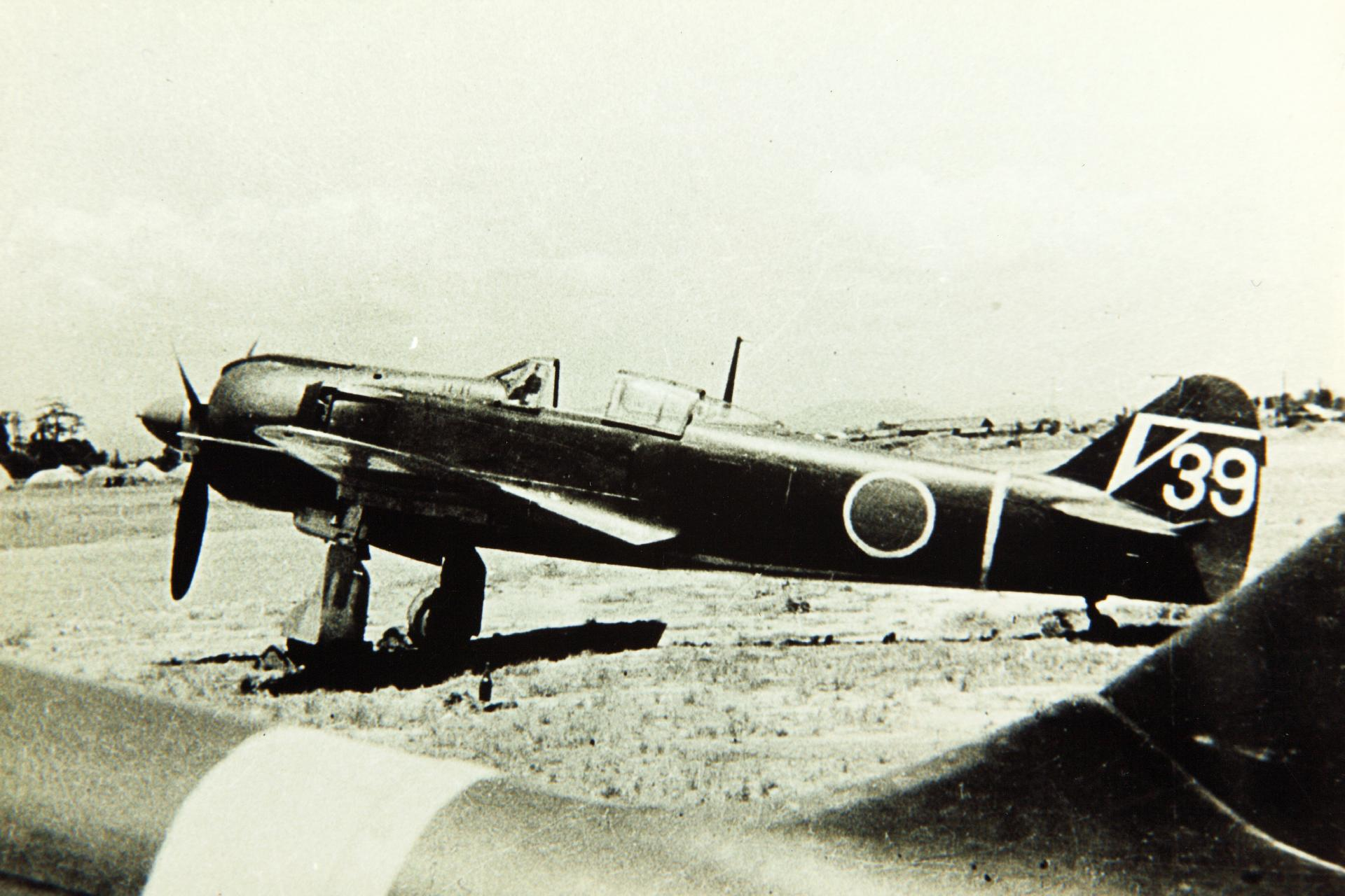 Catalog #: 01_00081962 Title: Kawasaki, Ki-100, Corporation Name: Kawasaki Official Nickname: Additional Information: Japan Designation: Ki-100 Tags: Kawasaki, Ki-100, Repository: San Diego Air and Space Museum Archive